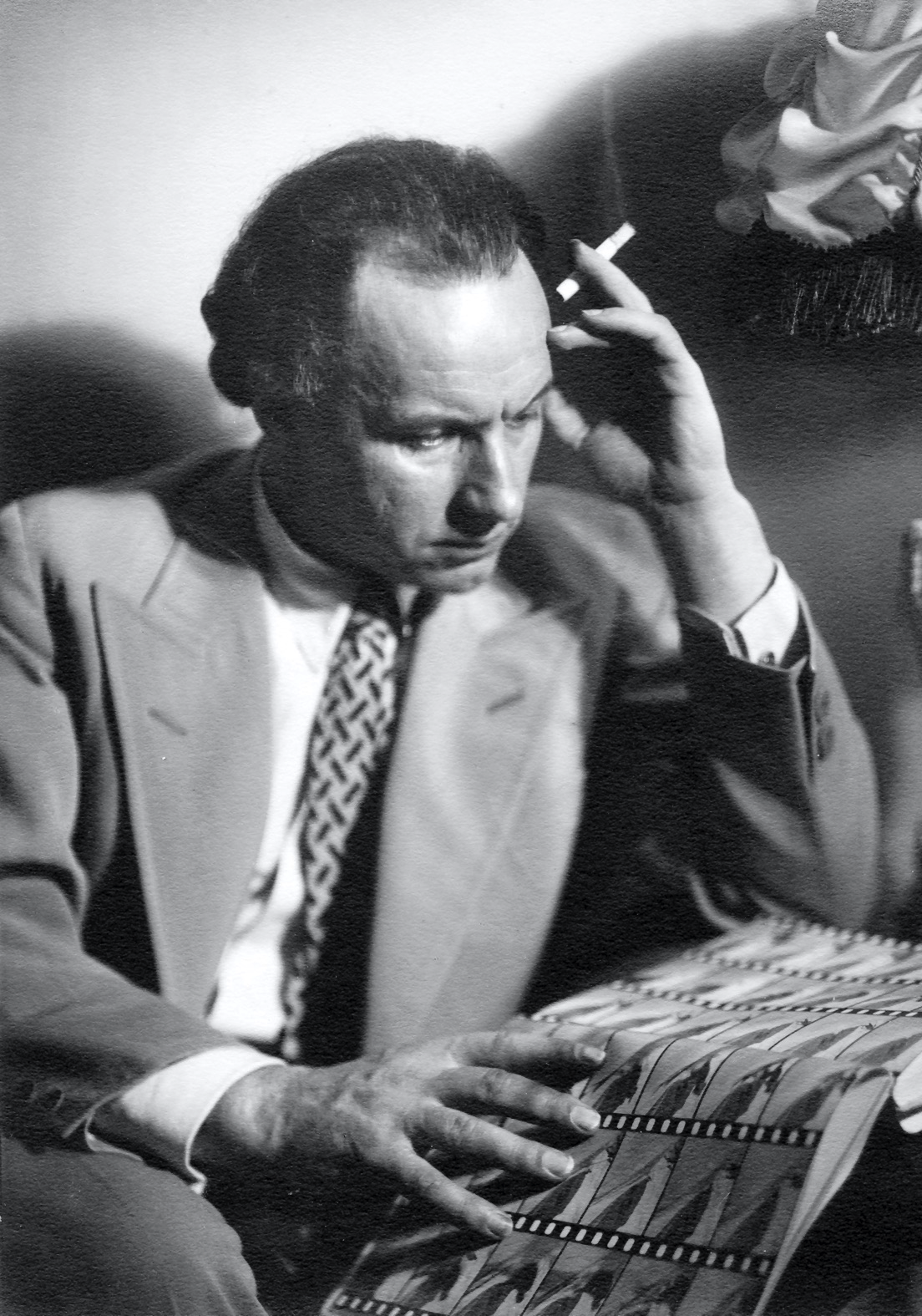 Arnold Fanck (1889–1974), German geologist and famous cinematographer